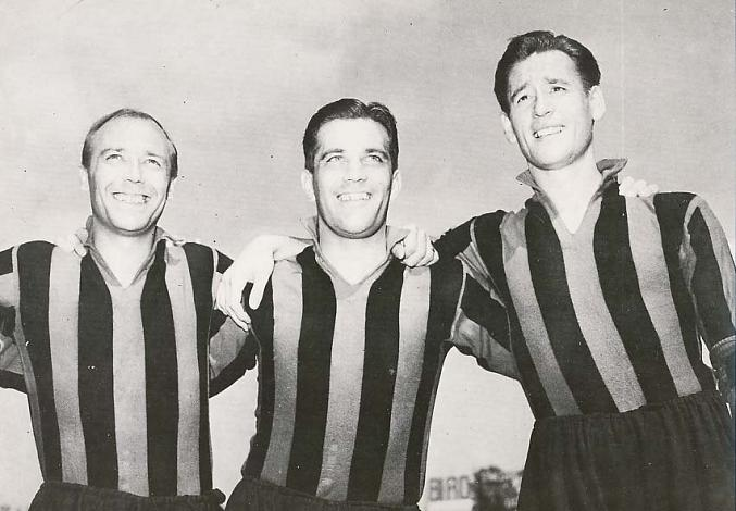 Gre-No-Li